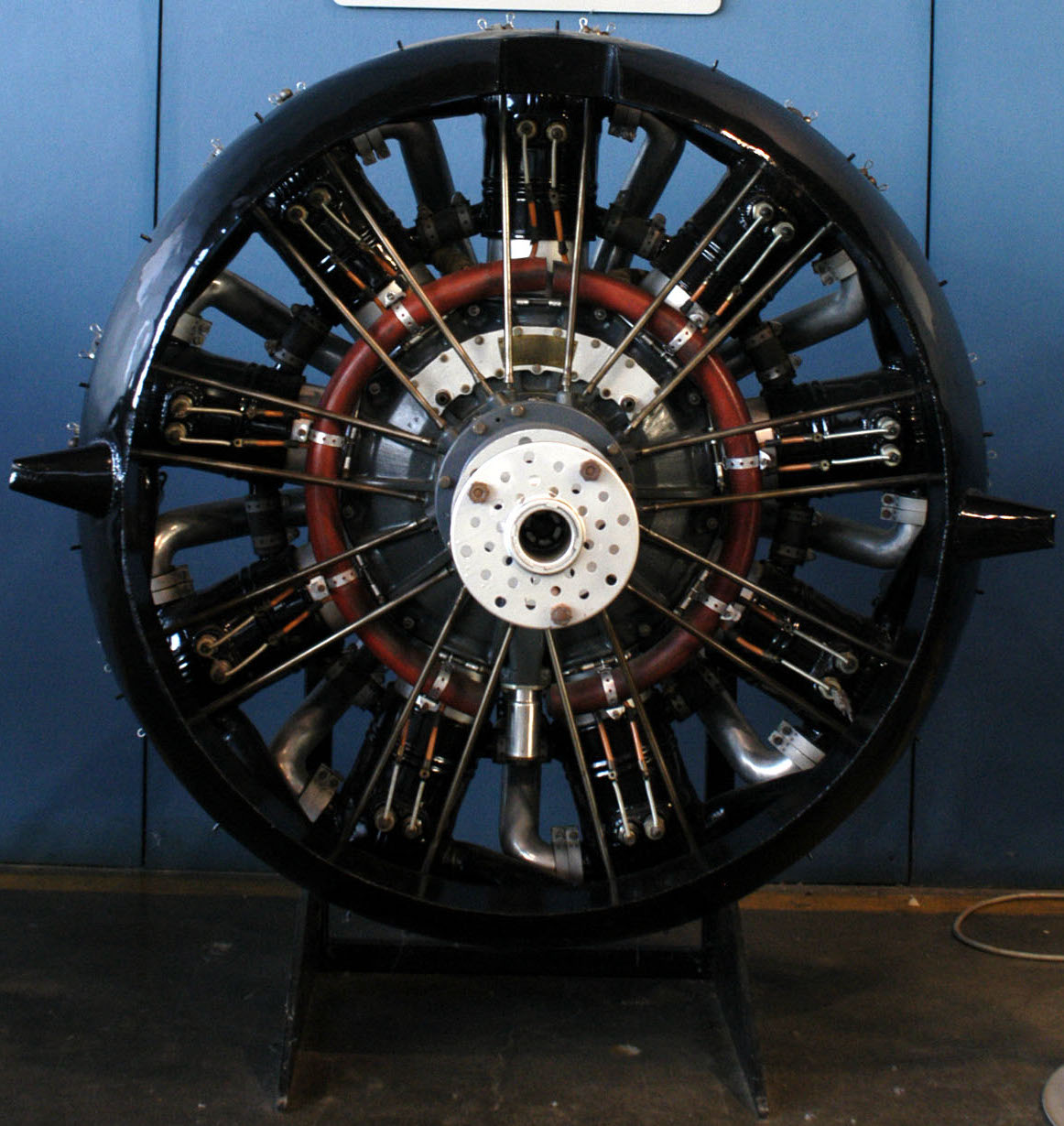 Salmson Z-9 water-cooled radial engine on display in the Research & Development Gallery at the National Museum of the United States Air Force.